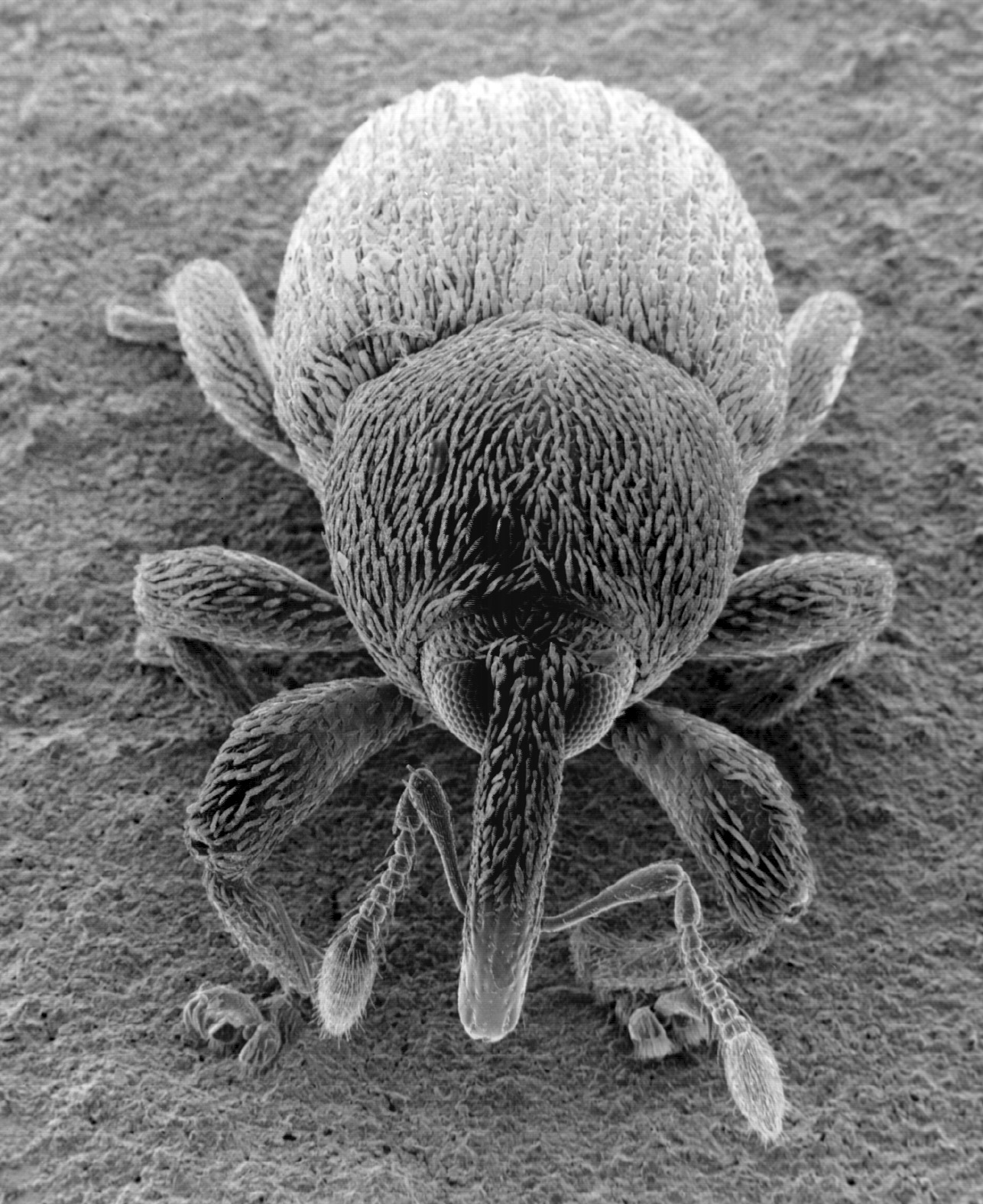 Scanning electron microscope image of a snout beetle